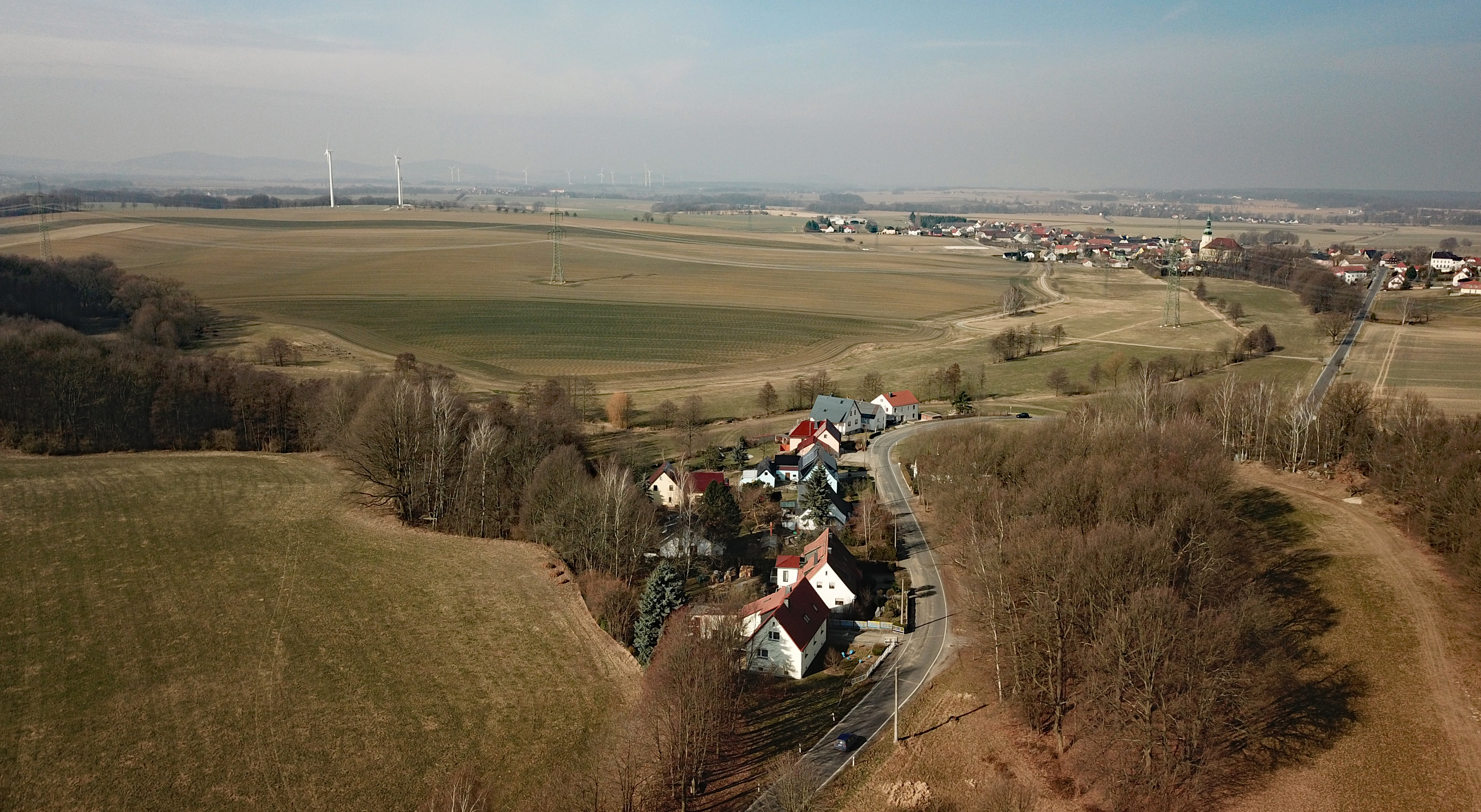 Prautitz (Crostwitz, Saxony, Germany) Hornjoserbsce: Powětrowy wobraz delnich Prawoćic